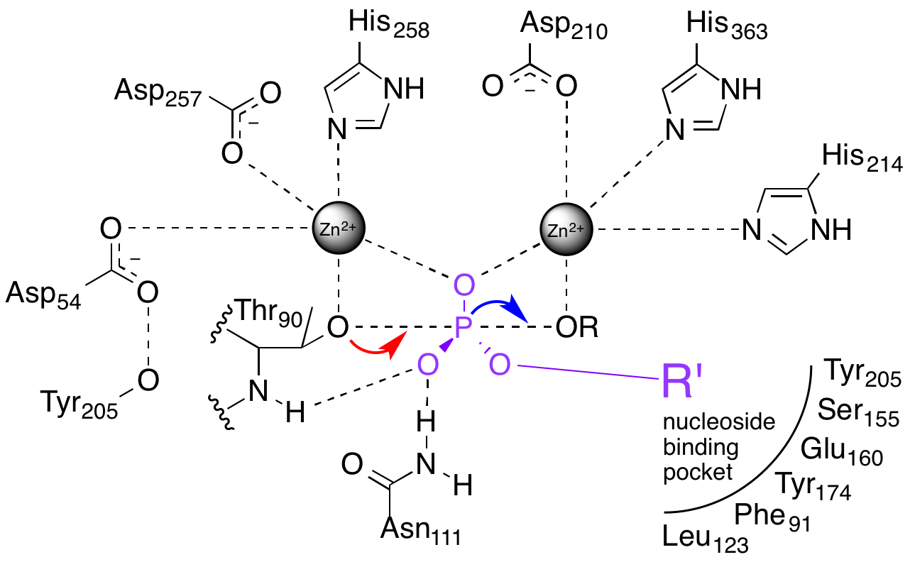 Schematic of the Xanthomonas axonopodis pv. citri NPP active site in a transition state. Red and blue curved arrows represent nucleophilic addition (AN) and elimination (DN) steps, respectively, of the phosphoryl transfer reaction. These two steps could occur in either order, and probably overlap. The active site's threonine nucleophile is regenerated via hydrolysis. This schematic does not contain any bond length or bond order information. Adapted from Zalatan et al. 2006.